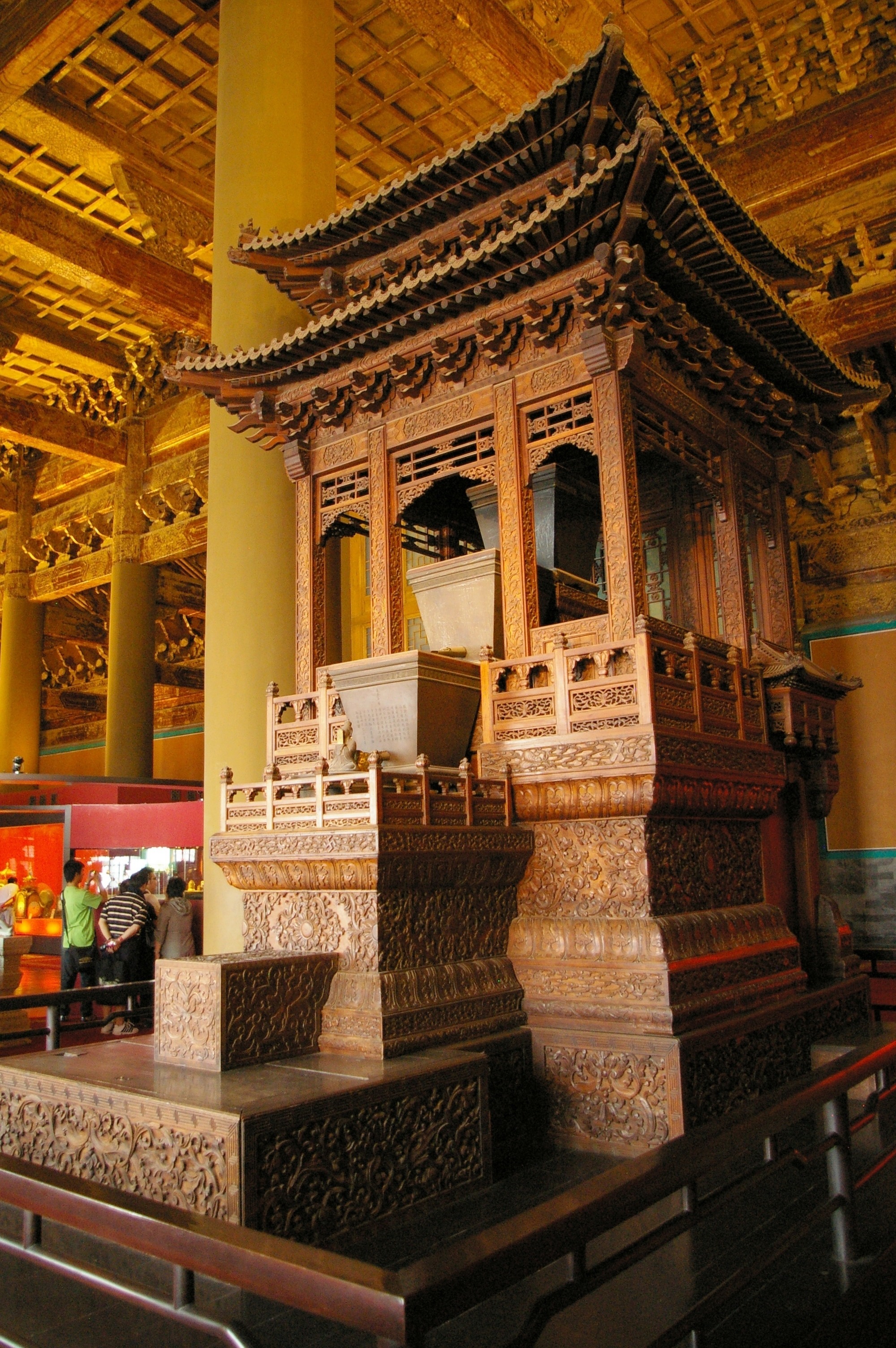 Water clock in The Clock Museum in Forbidden City in Beijing